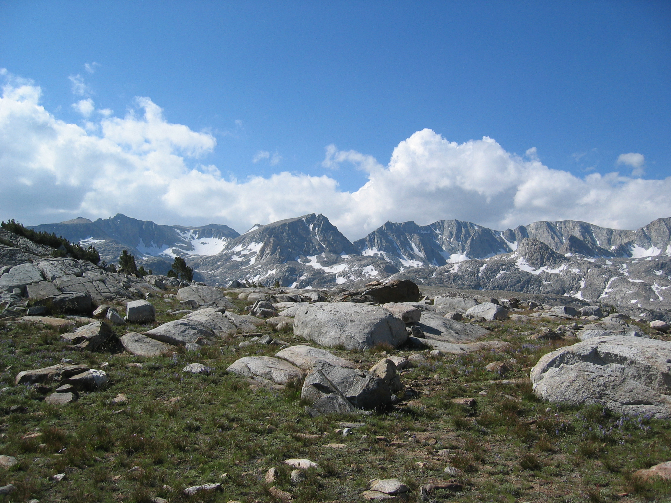 Alpine meadow, boulders, and mountains in Humphries Basin, John Muir Wilderness, Sierra Nevada, California.